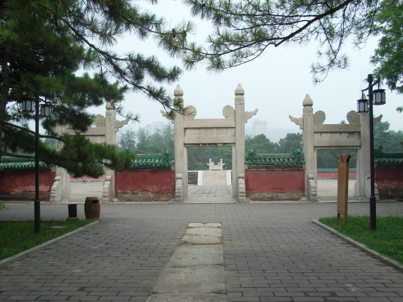 Temple of the Sun, Beijing